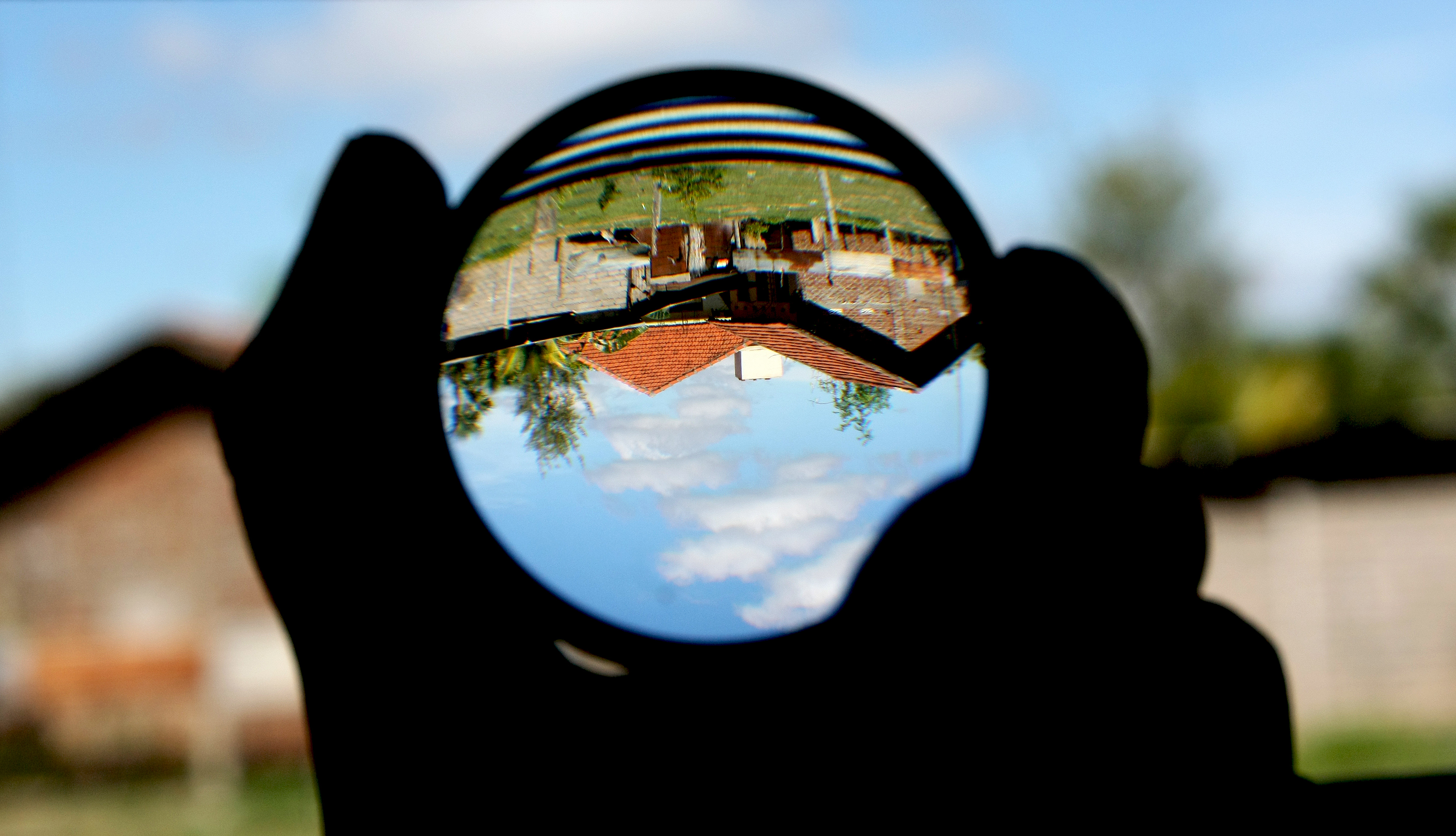 Magnifying glass / biconvex lens creates a distant scene upside-down and smaller.